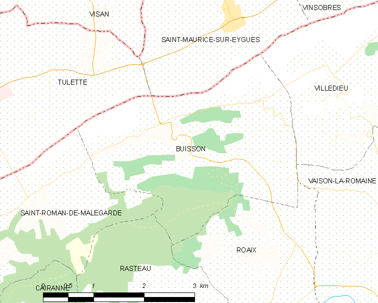 Map of French municipality Buisson